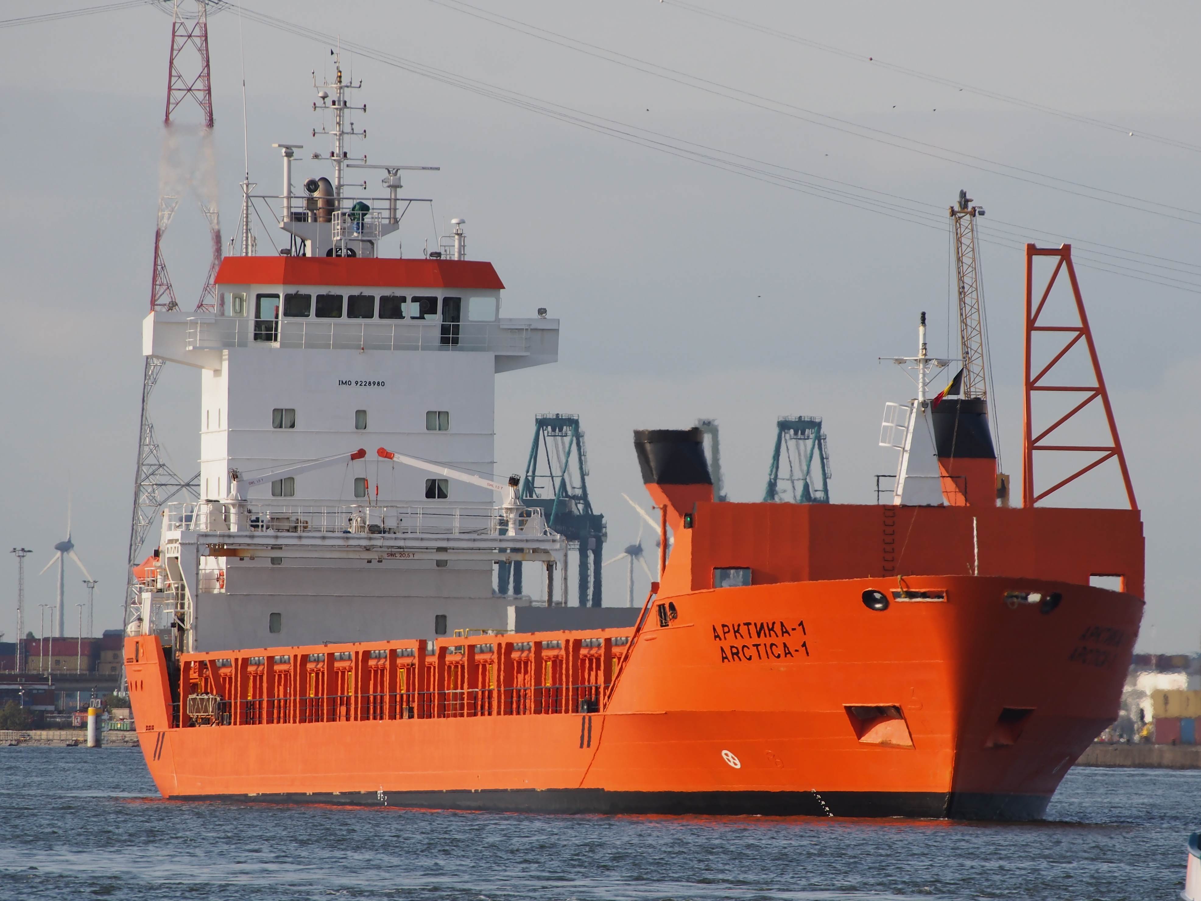 Photographed at Port of Antwerp, Belgium.